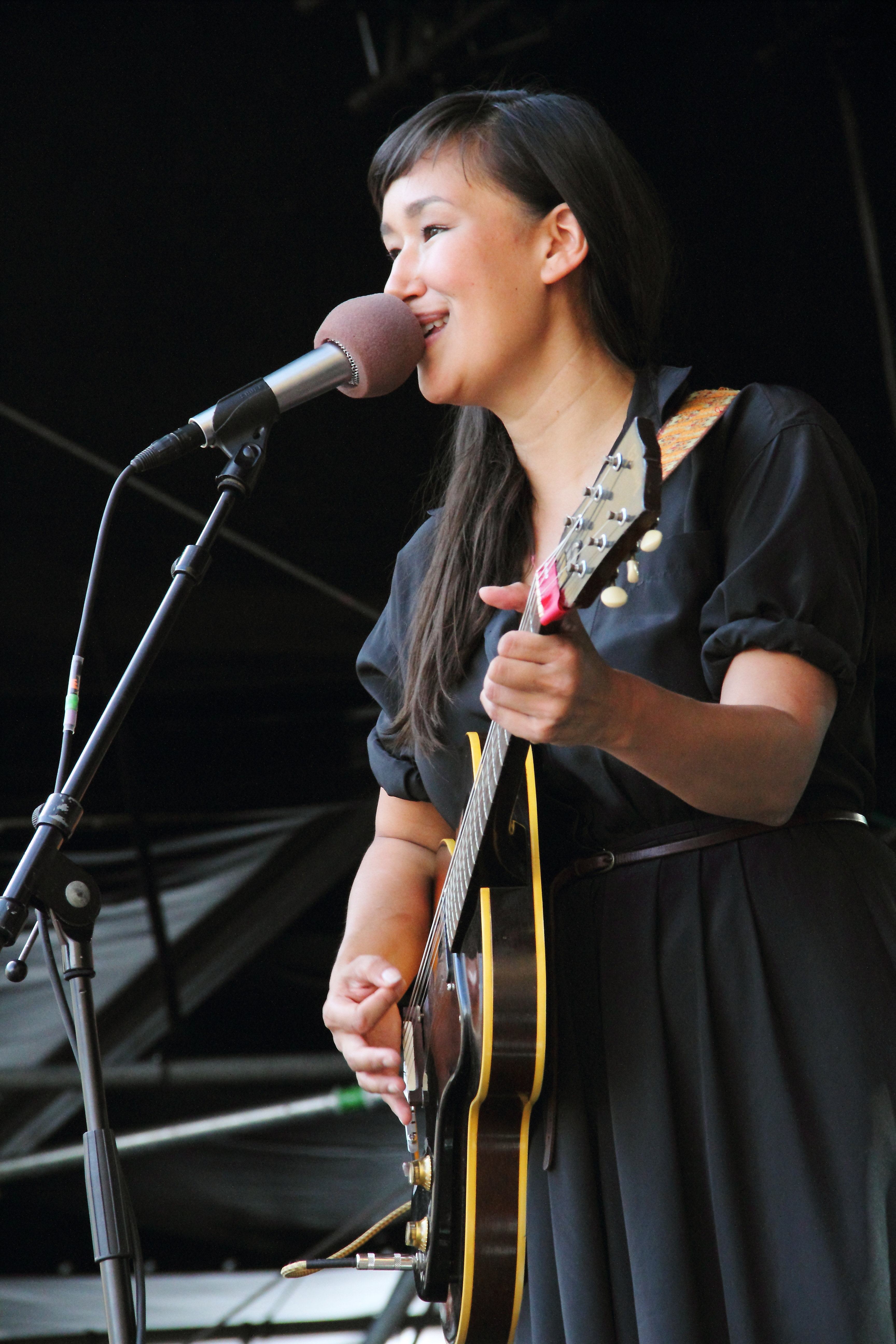 Nive Nielsen & The Deer Children at Rudolstadt-Festival 2016.